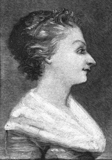 A middle aged woman, painted in profile. Her hair has some grey around the face and is swept back; she is wearing a white fichu over her dress.